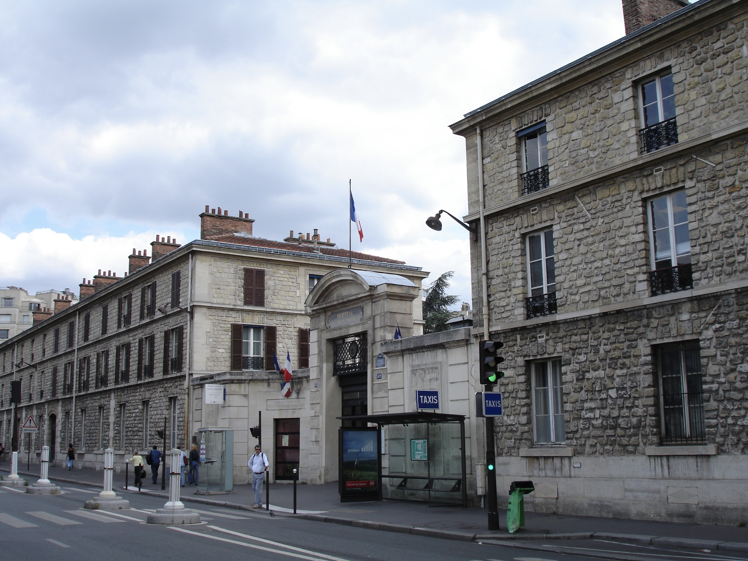 Laennec memorial, Necker Hospital, Paris, France